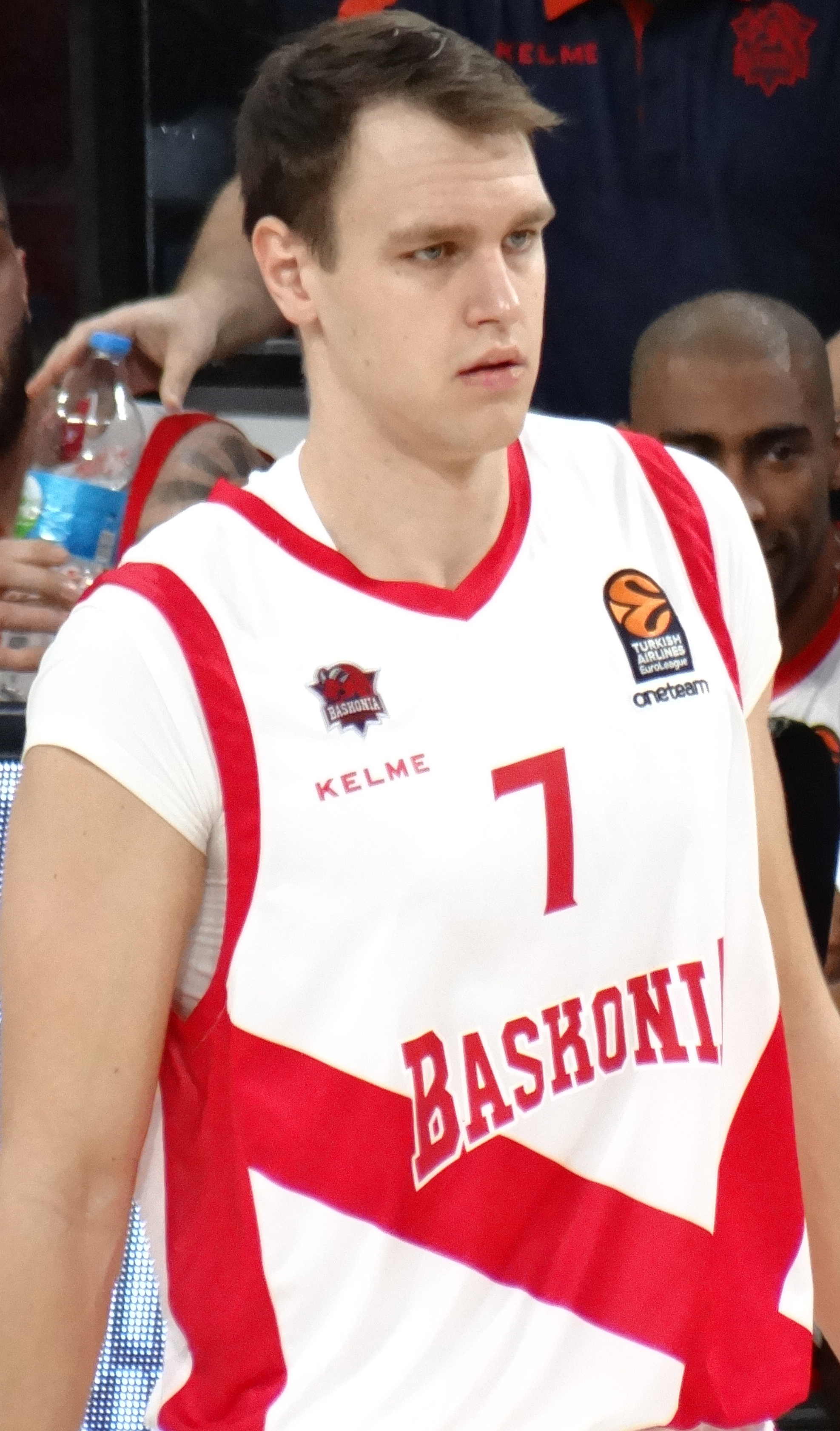 Johannes Voigtmann 7 - Saski Baskonia 20171215